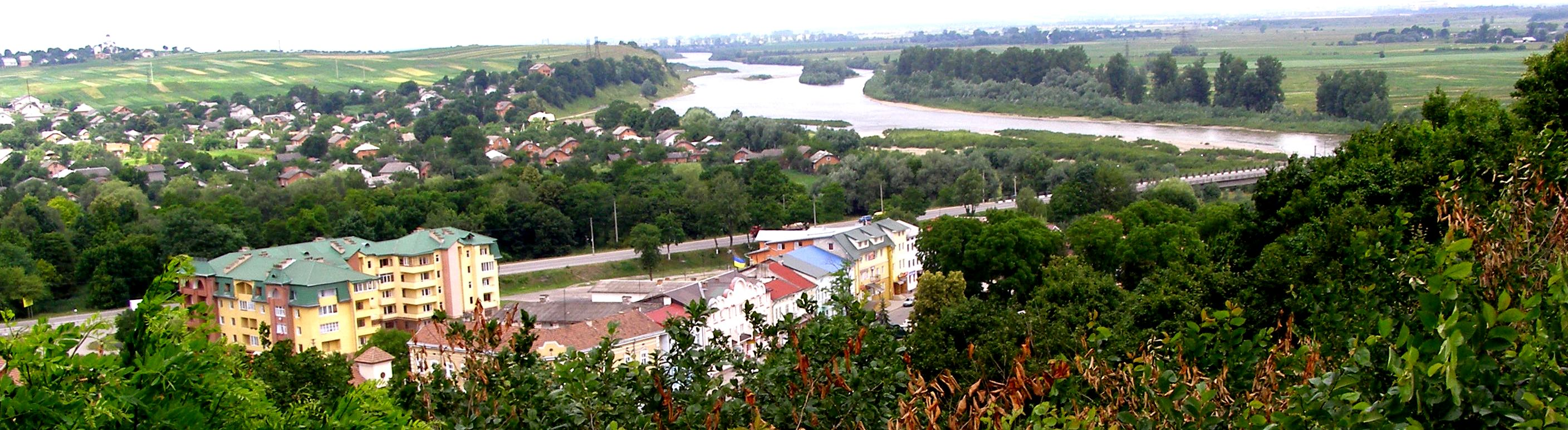 Panoramics of Halych from castle hill.